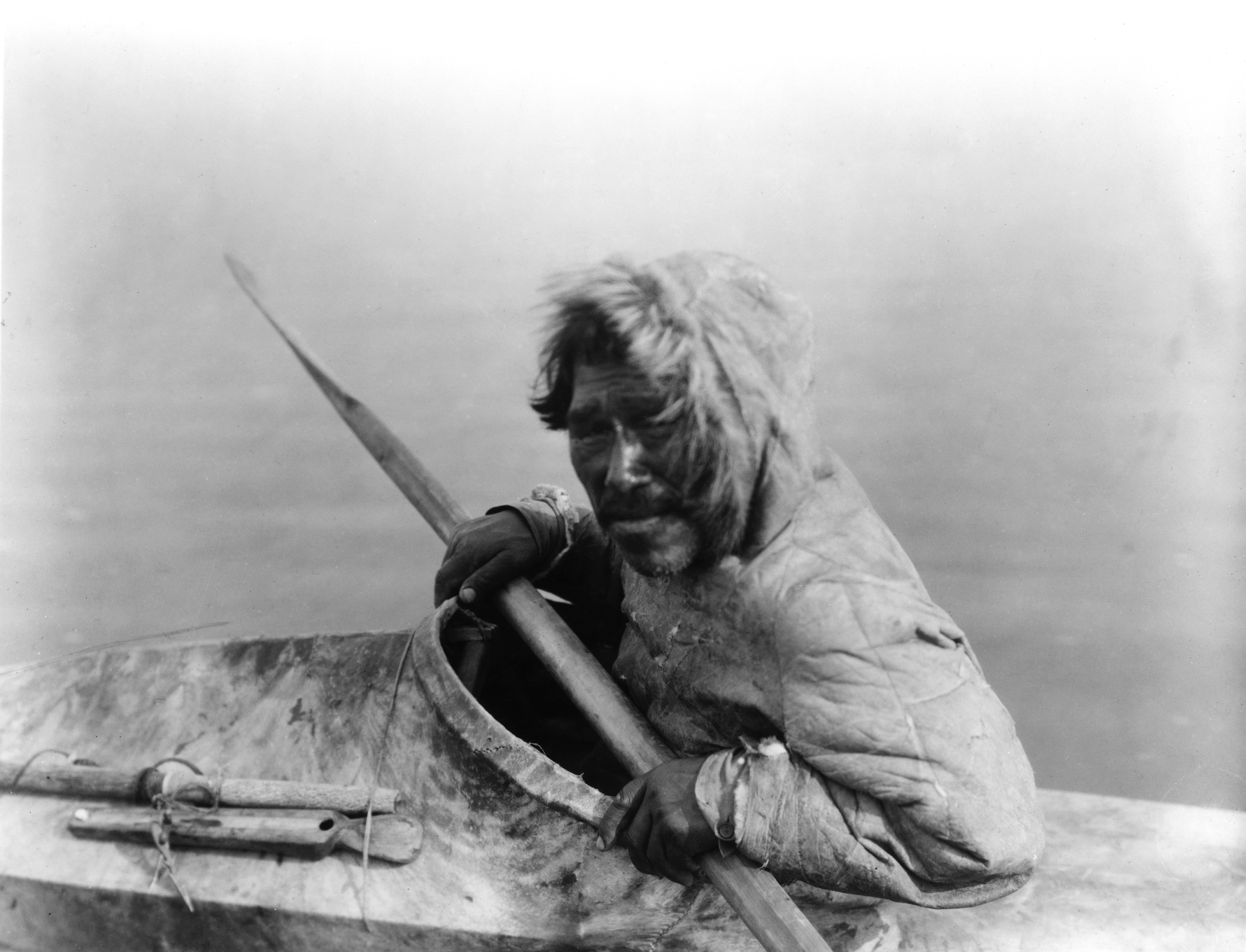 Inuk in a kayak, c. 1929 (photo by Edward S. Curtis).